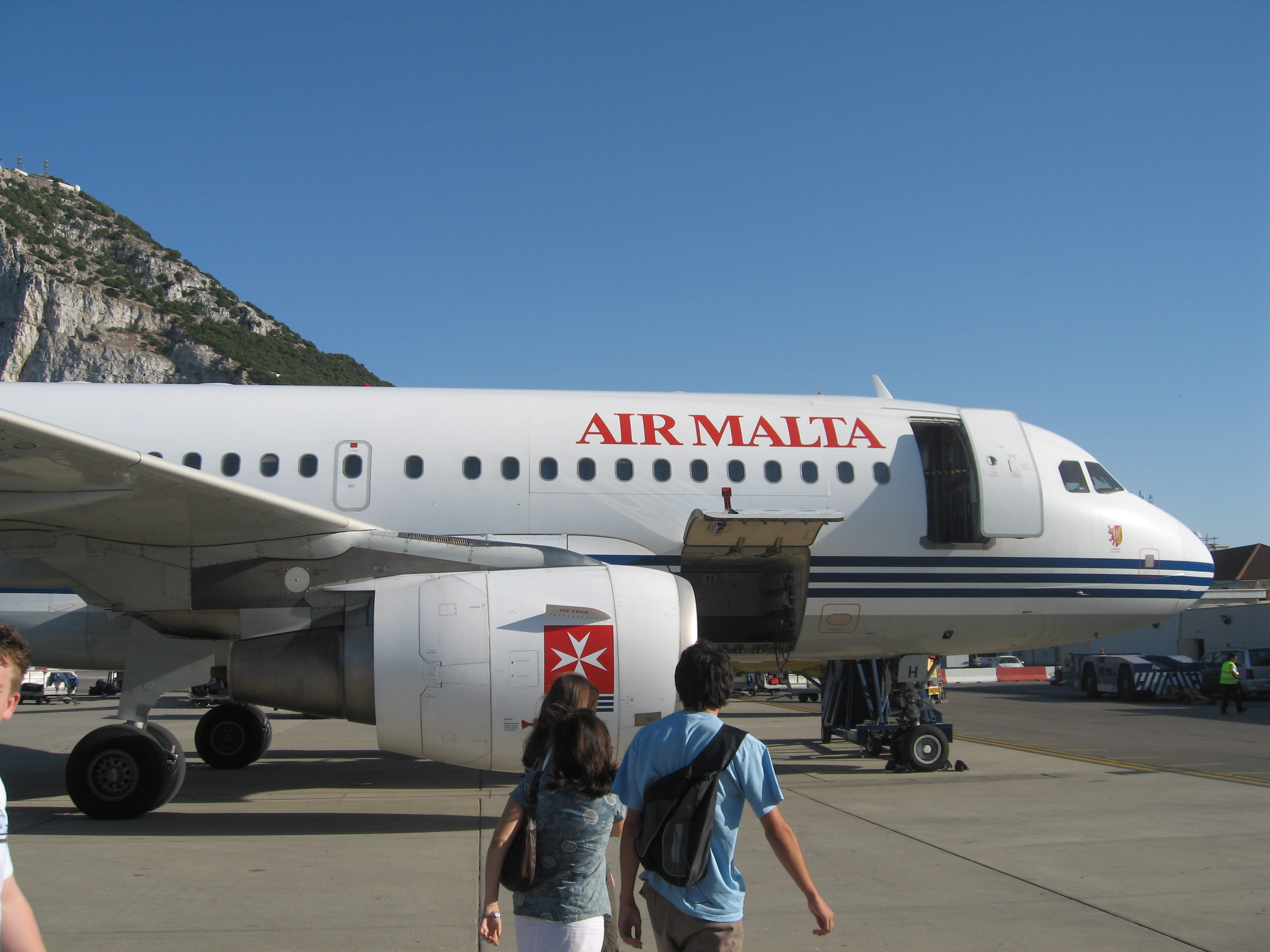 Air Malta plane parked in Gibraltar Airport